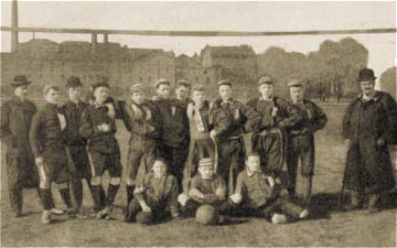 Team portrait of Berliner FuÃŸball Club Frankfurt, Germany's first football club ca. 188?-189?.